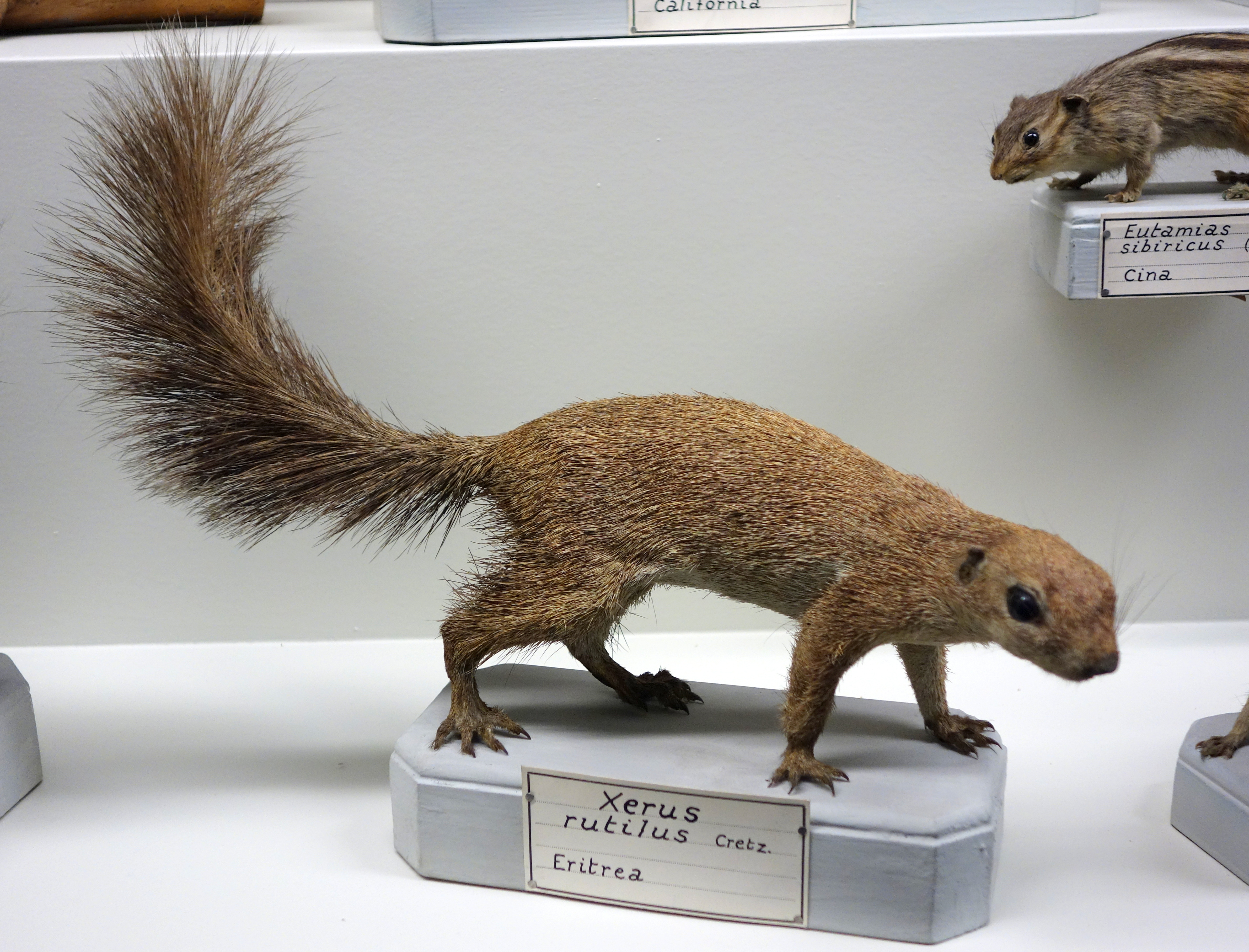 Exhibit in the Museo Civico di Storia Naturale di Genova, Via Brigata Liguria, 9, 16121, Genoa, Italy.